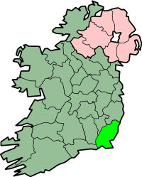 map of County Wexford, Ireland 08:10, 5 February 2004 Morwen 200x249 (30613 bytes) (map)